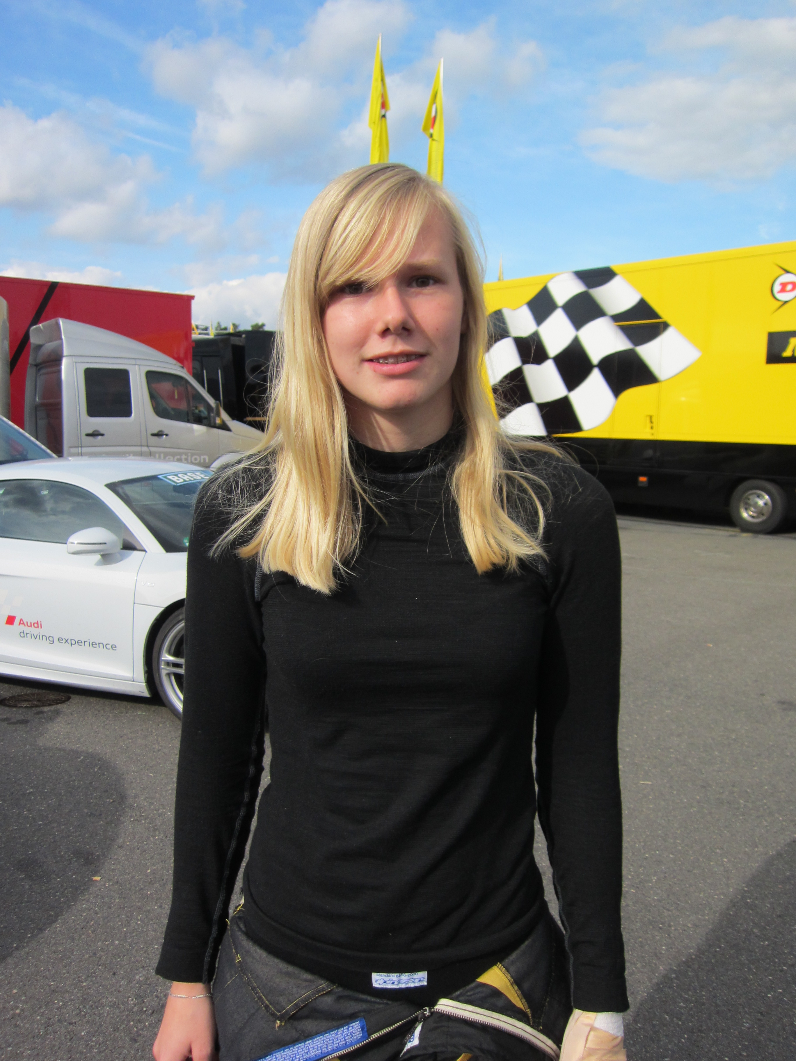 Beitske Visser: the photo was taken during 2012's ADAC GT Masters race weekend at Hockenheim